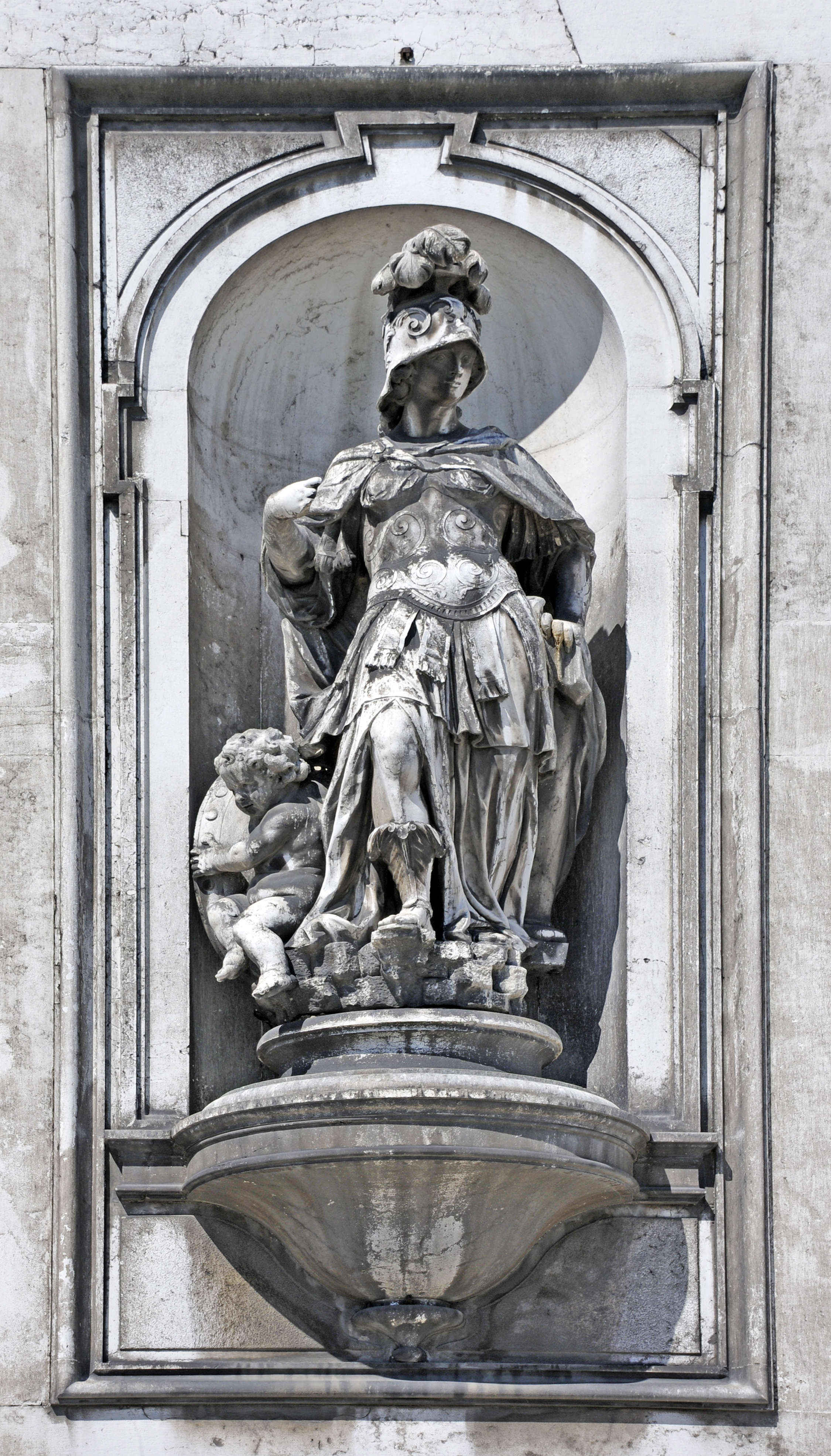 Statue of allegory of Fortitude on the facade of the church of Santa Maria del Rosario (Venice), bottom left